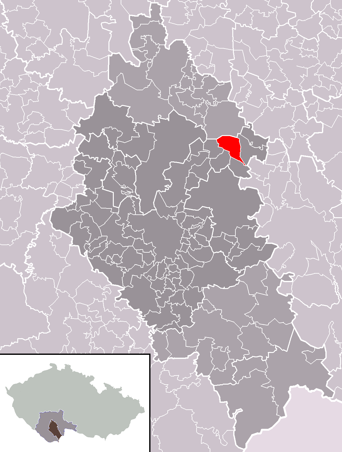 Location of Neplachov municipality within České Budějovice District and administrative area of České Budějovice as a Municipality with Extended Competence.